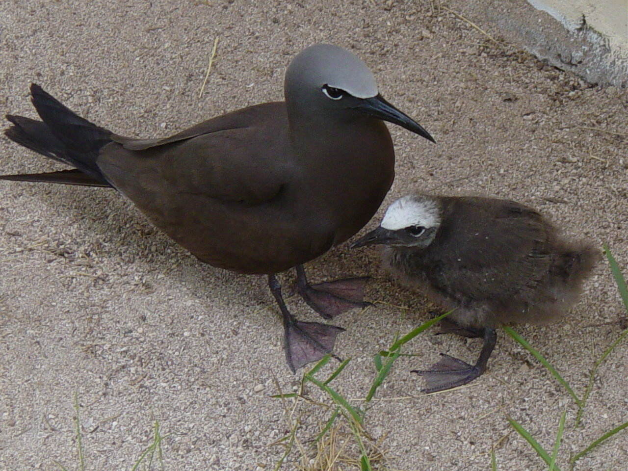 Brown Noddy Anous stolidus, an adult with a chick; Seychelles.